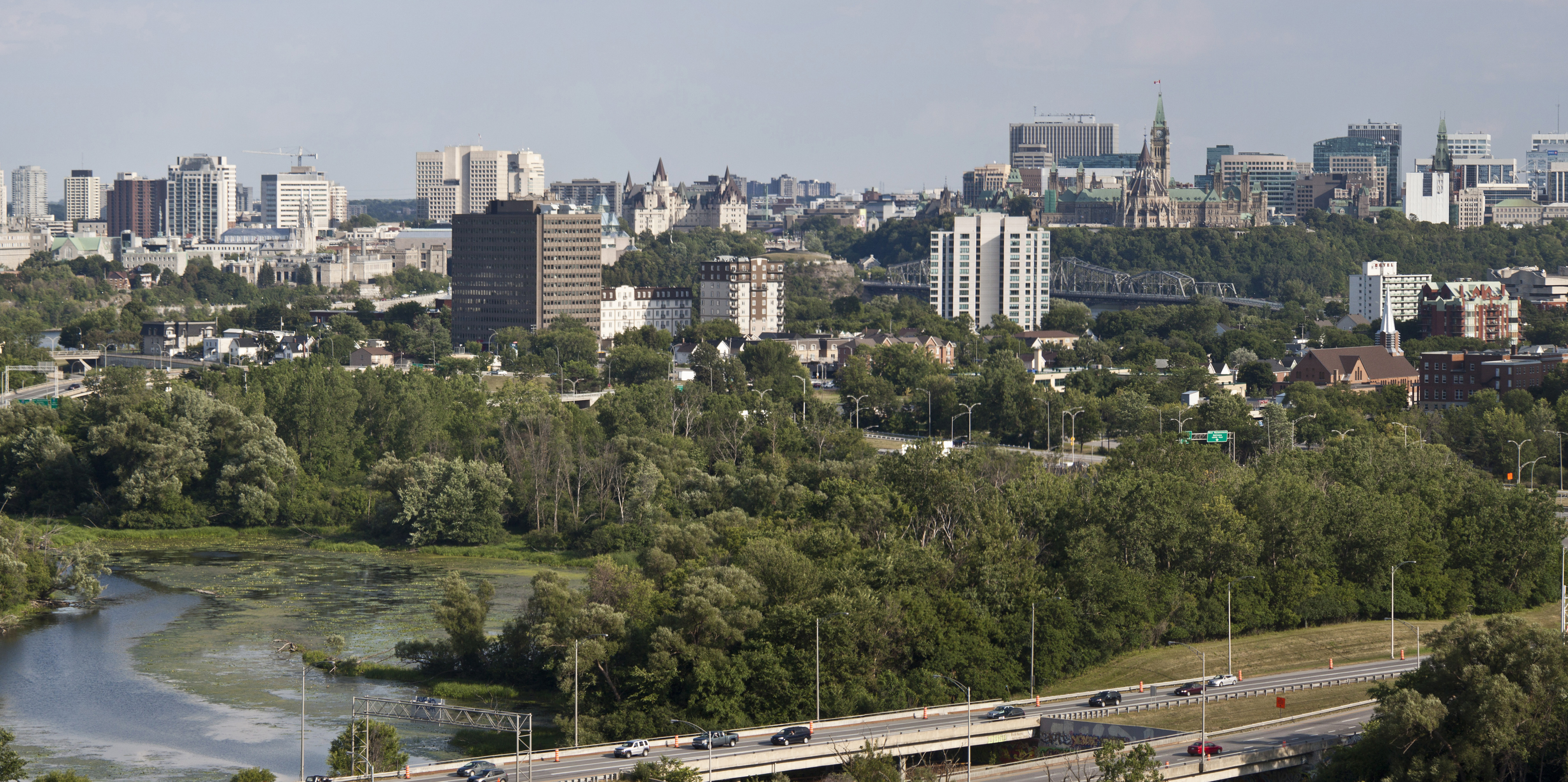 Ottawa and Gatineau